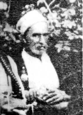 Cropped image of Baca Kurti, taken from 1878–81 photography of members of the League of Prizren.